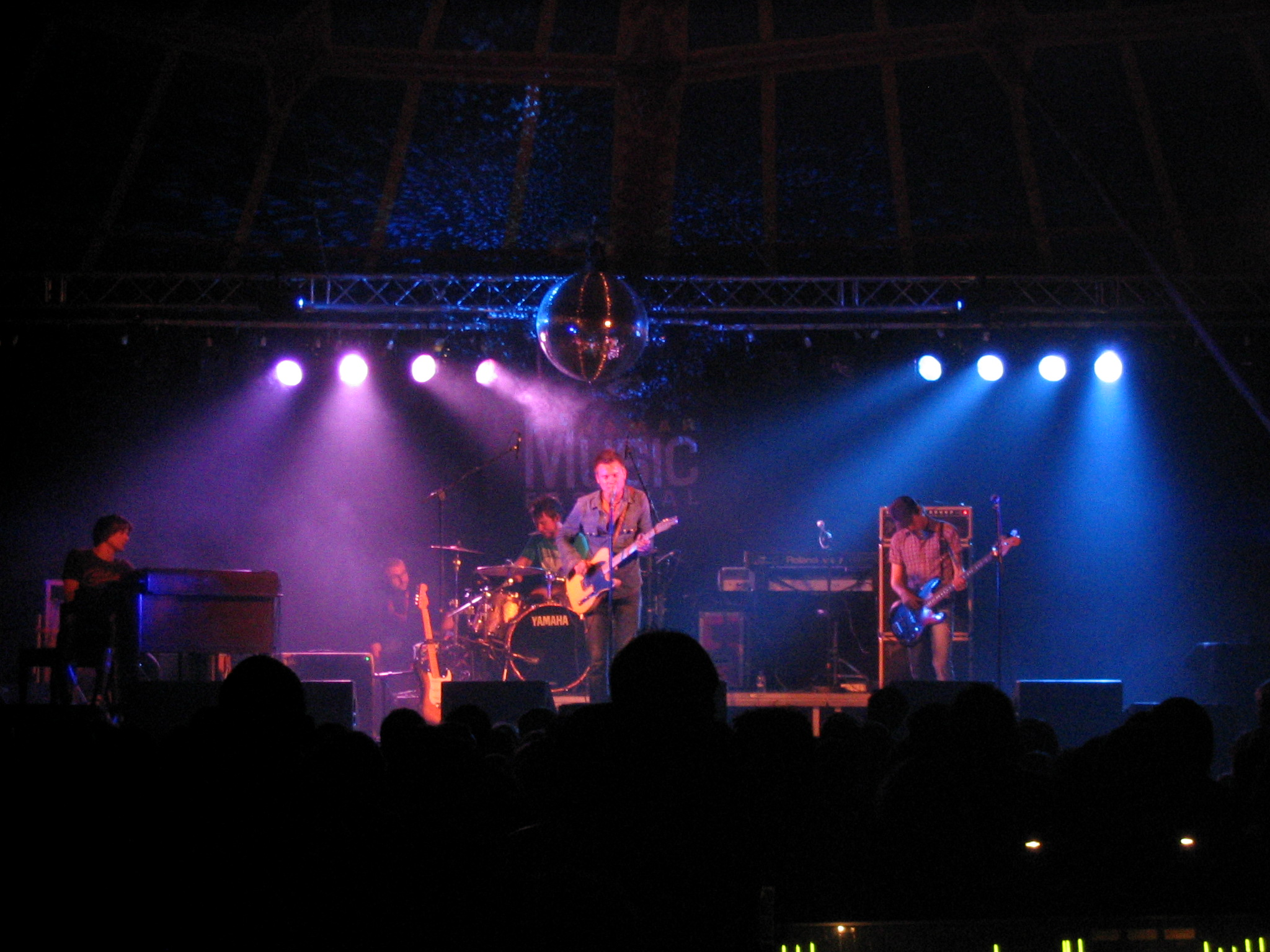 Amund Maarud Band at Hamar Music Festival, Norway.